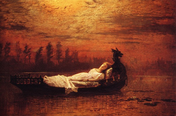 The Lady of Shalott